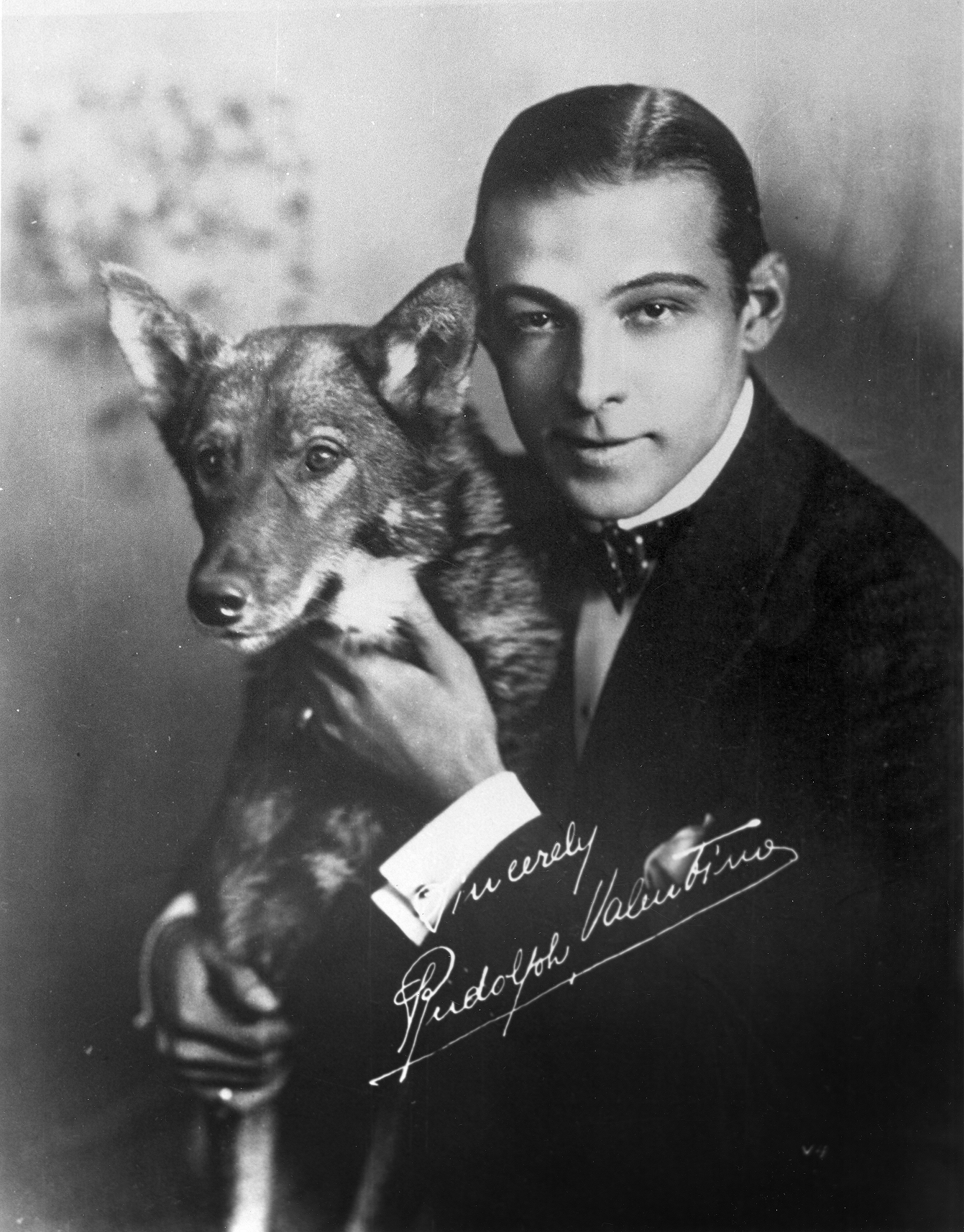 Publicity photograph of Rudolph Valentino and his dog. Actor Rudolph Valentino appeared in many films, including Moran of the Lady Letty (1921), which was filmed in a variety of Southern California locations, including Balboa, Anaheim Landing, Catalina, and the Lasky Camp in Santa Ana Canyon. Photo collected during research for the Orange County Archives' 2011 exhibit, "On Location: Silent Film In Orange County." There are no known copyright restrictions on this image. All future uses of this photo should include the courtesy line, "Photo courtesy Orange County Archives." Comments are welcome after reading our Orange County Archives Comment Policy.